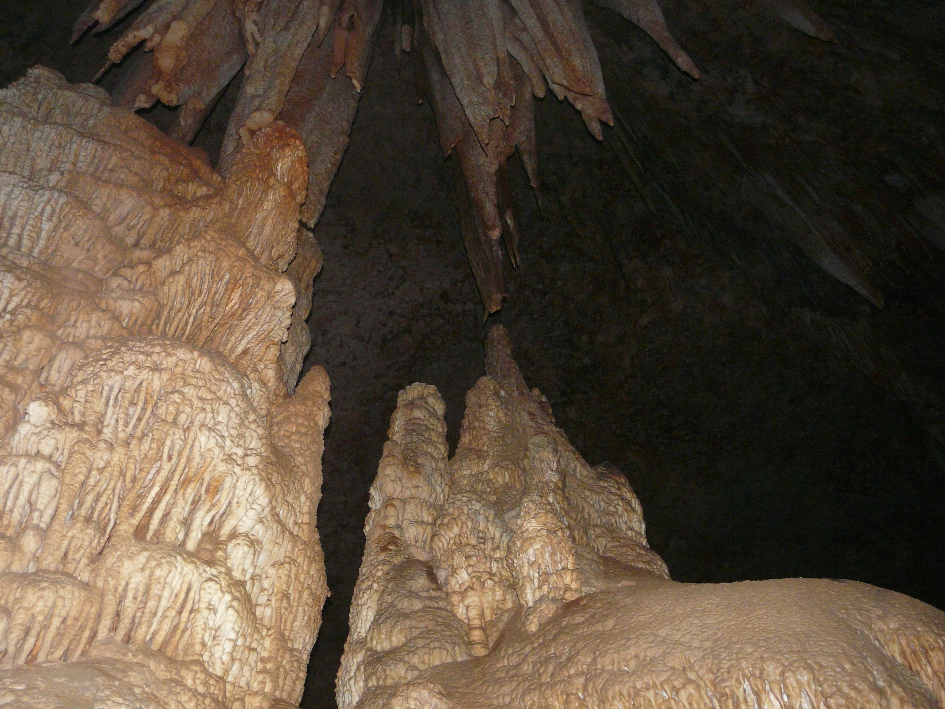 Hawk cave in Hala, East of Socotra island. It is about 15 meters in diameter, 8 meter height, 500 to 1000 meter horizontally deep.